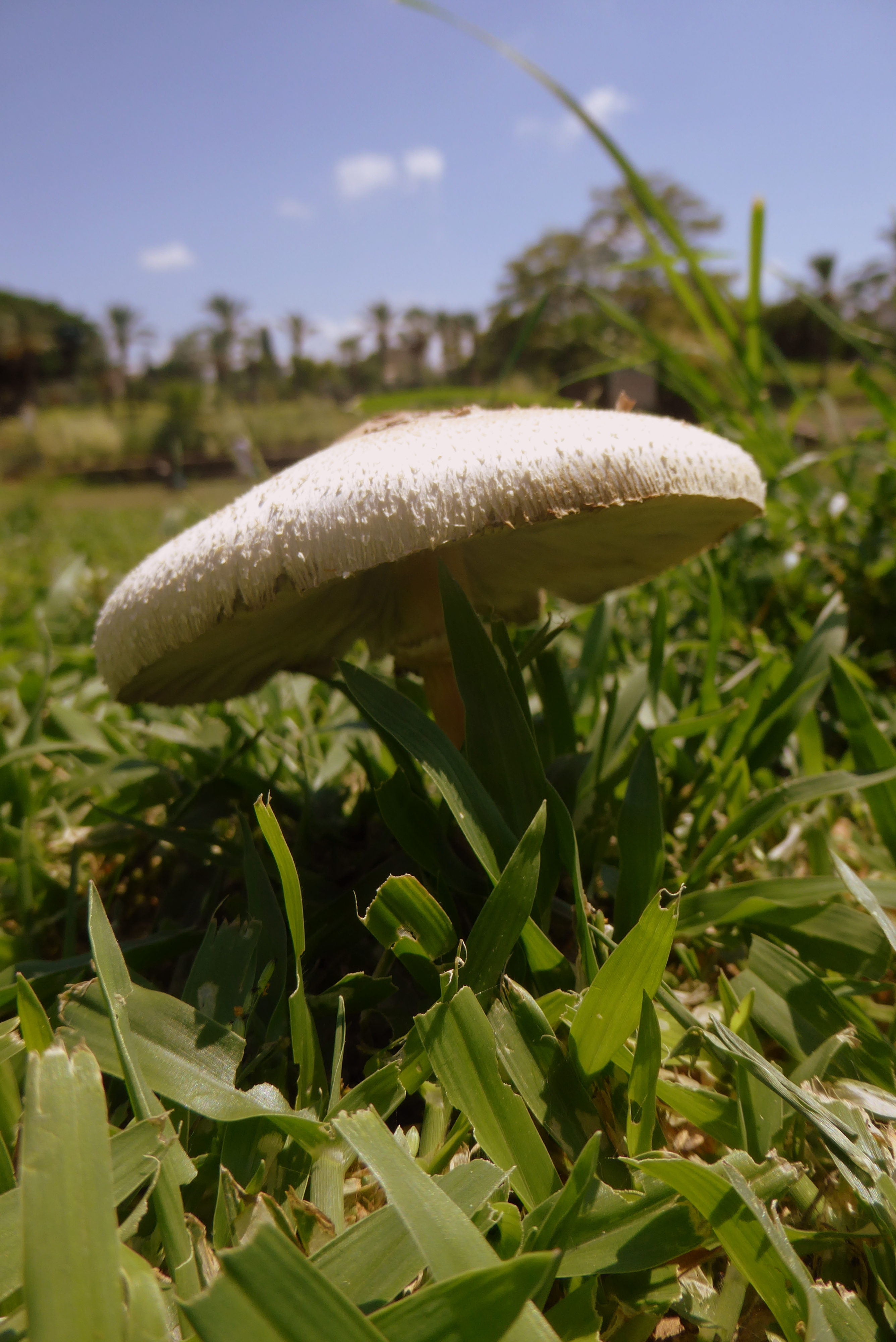 Edith Wolfson Park